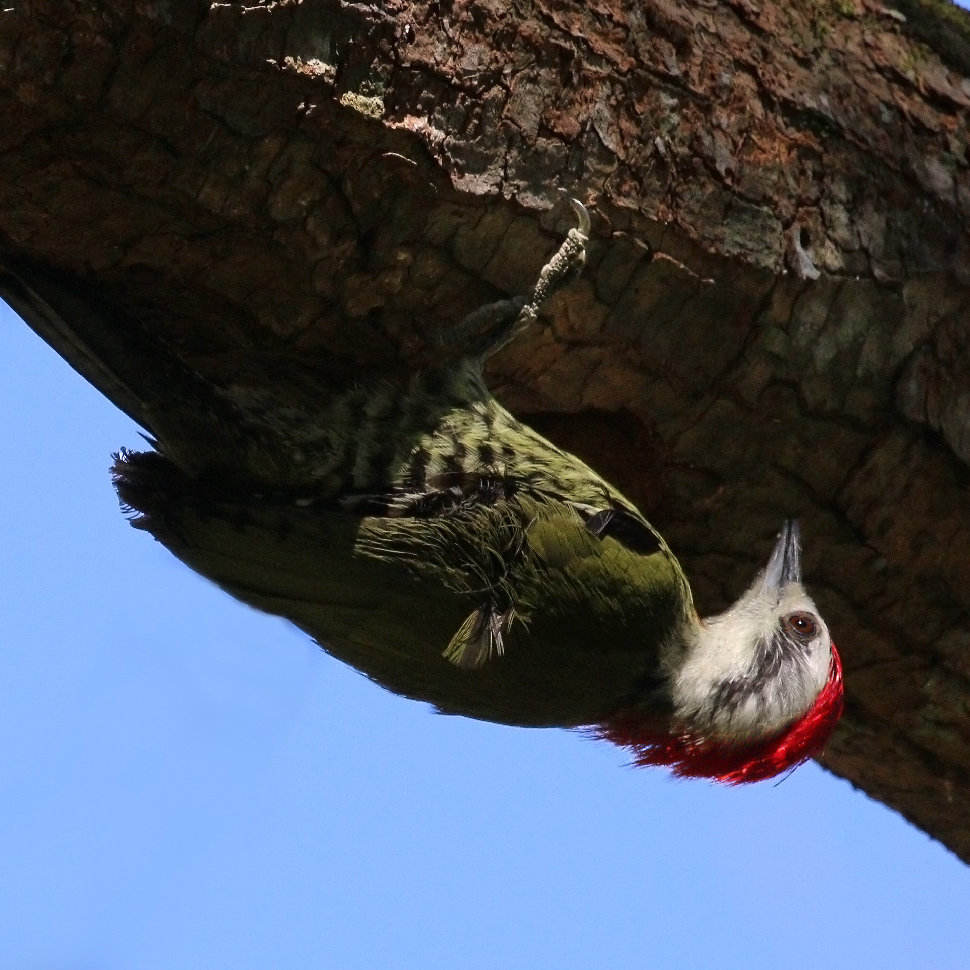 Cuban green woodpecker (Xiphidiopicus percussus percussus) juvenile